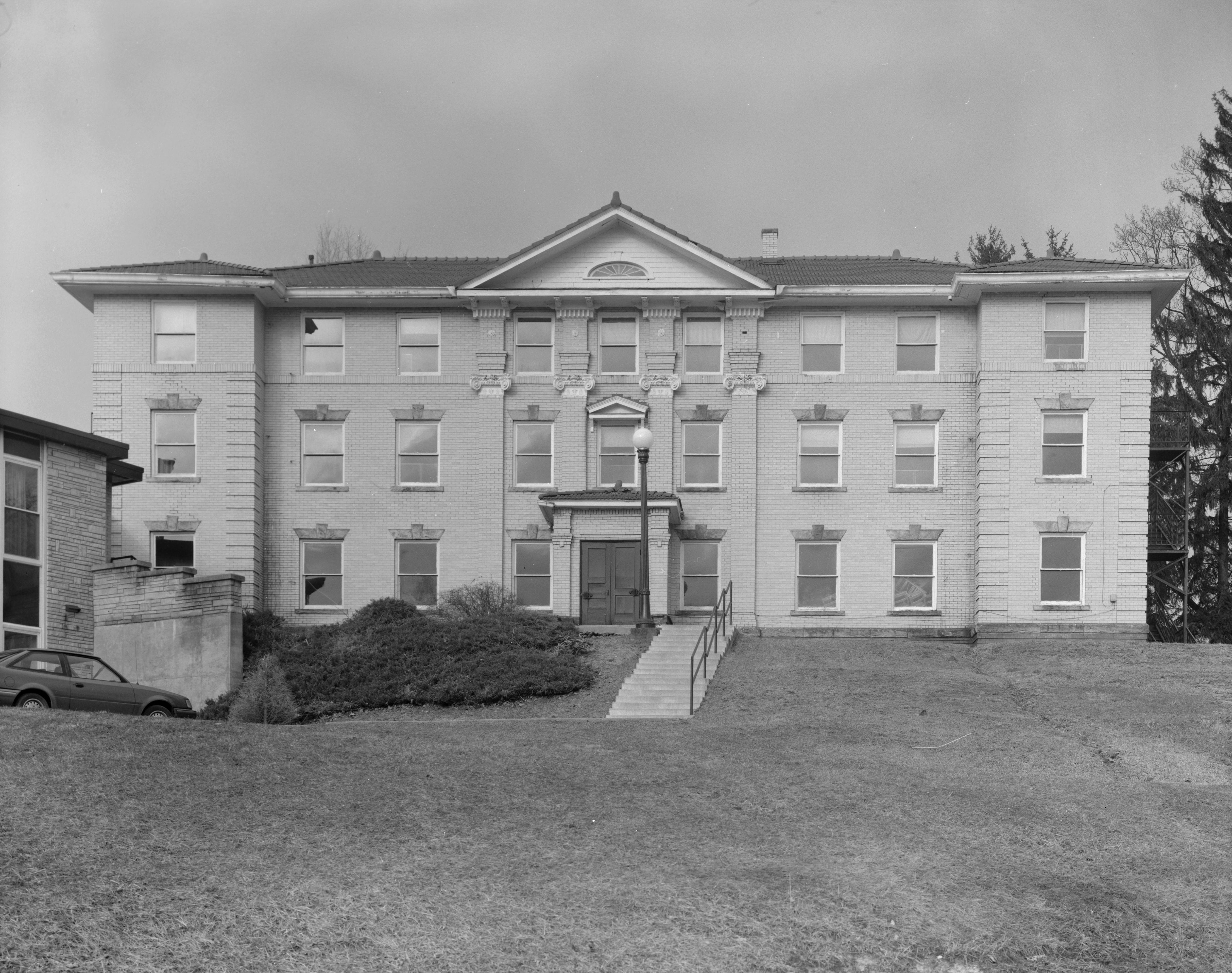 Southeastern front of Whitescarver Hall, located along Circle Drive on the campus of Alderson-Broaddus College in Philippi, West Virginia, United States. Built in 1912, it is listed on the National Register of Historic Places.